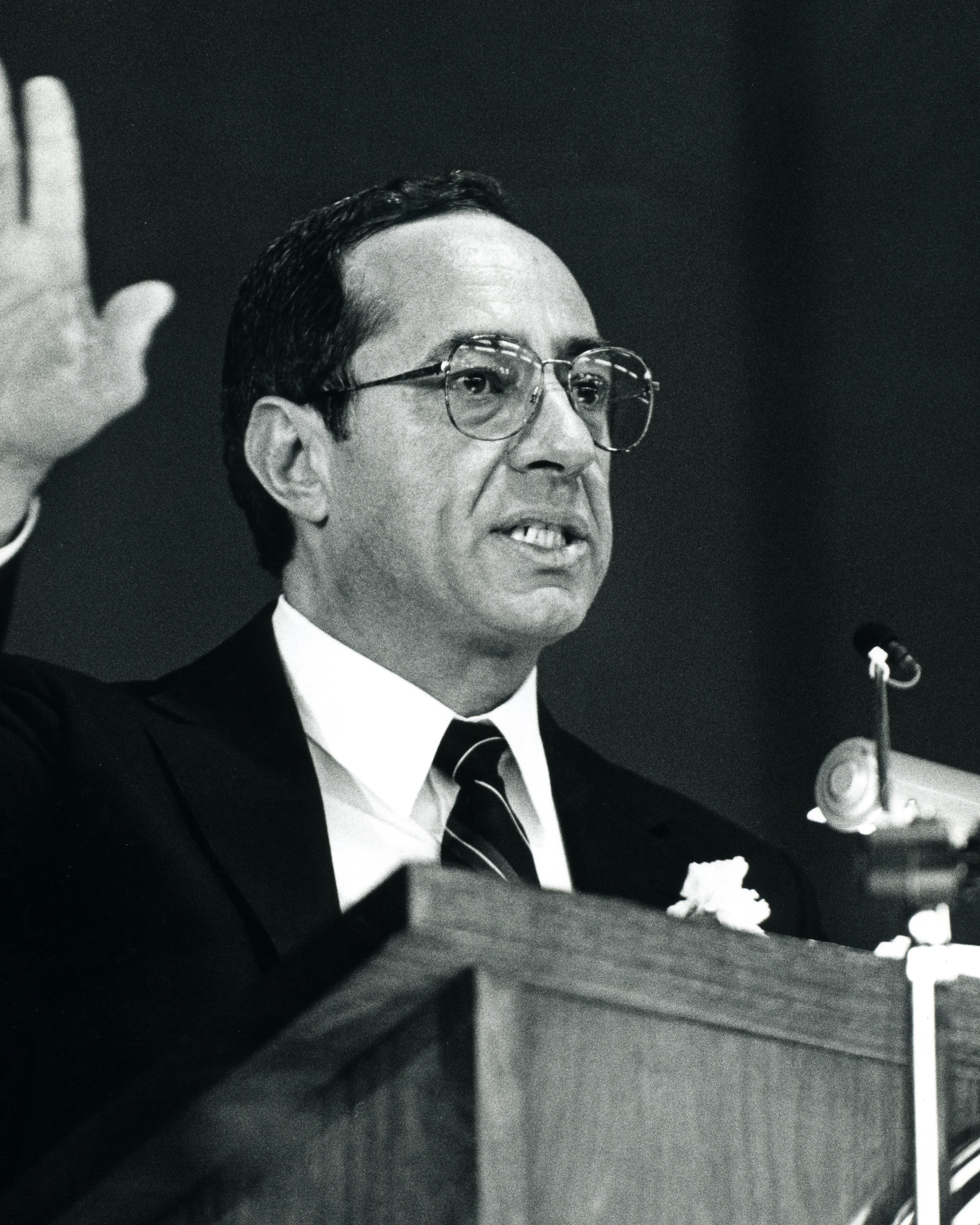 New York governor Mario Cuomo speaks at Cornell University in 1987.